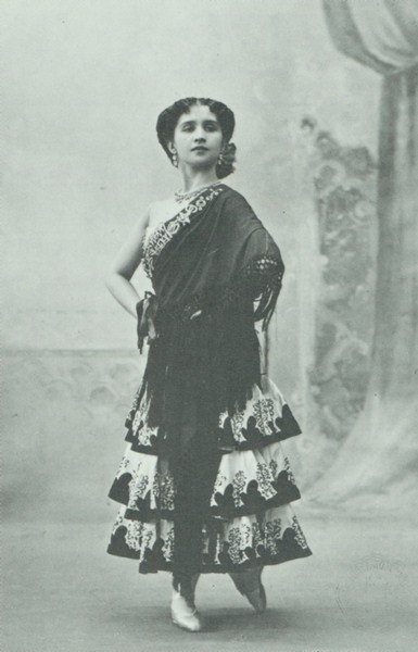 Vera Trefilova in Don Quixote by Alexander Gorsky, premiered in 1902